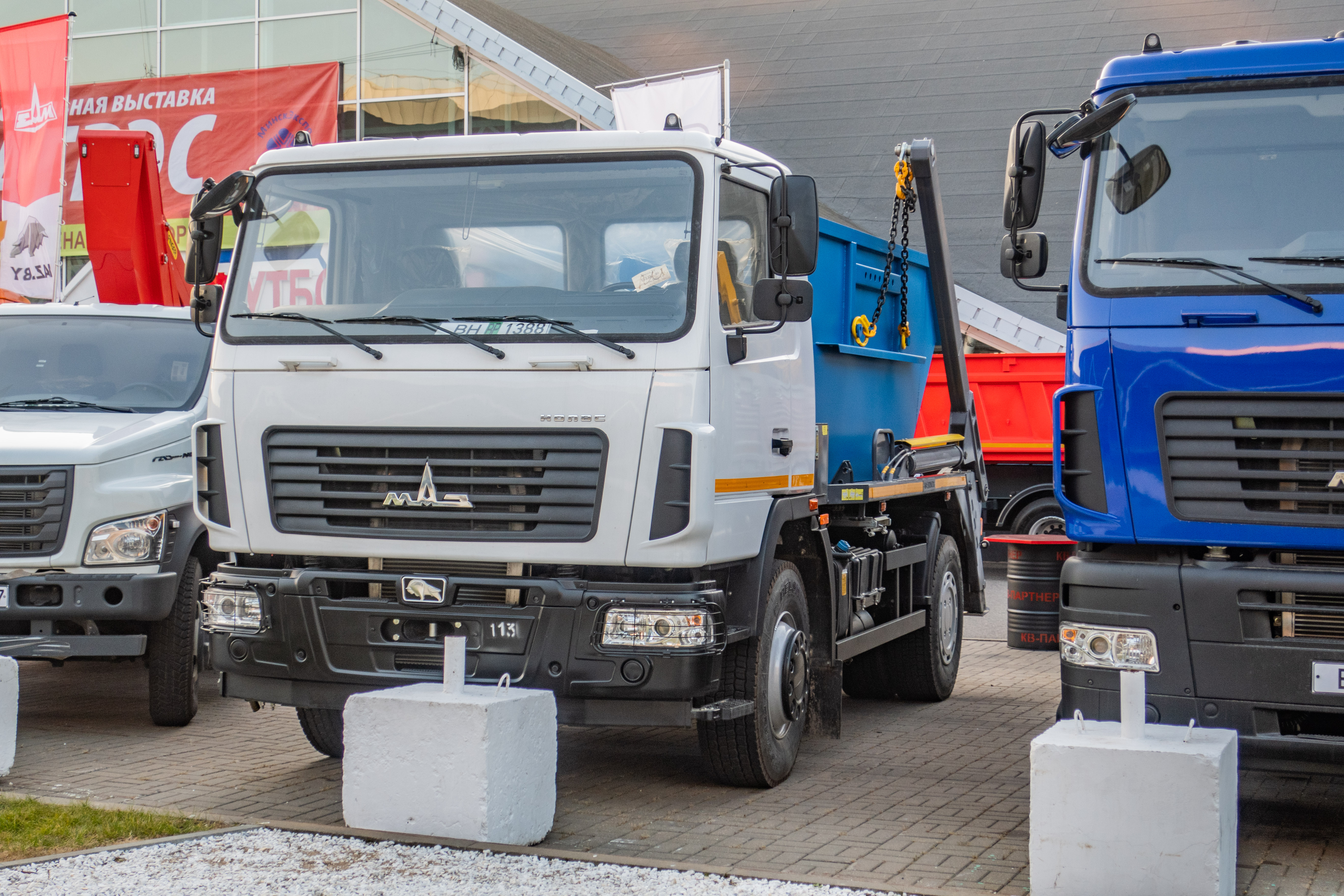 "Budpragres-2019" exhibition, Minsk, Belarus